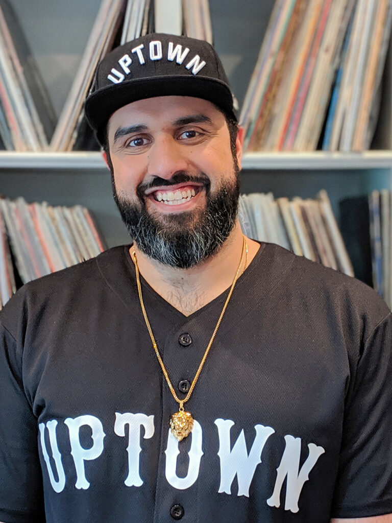 Headshot of Manveer Heir